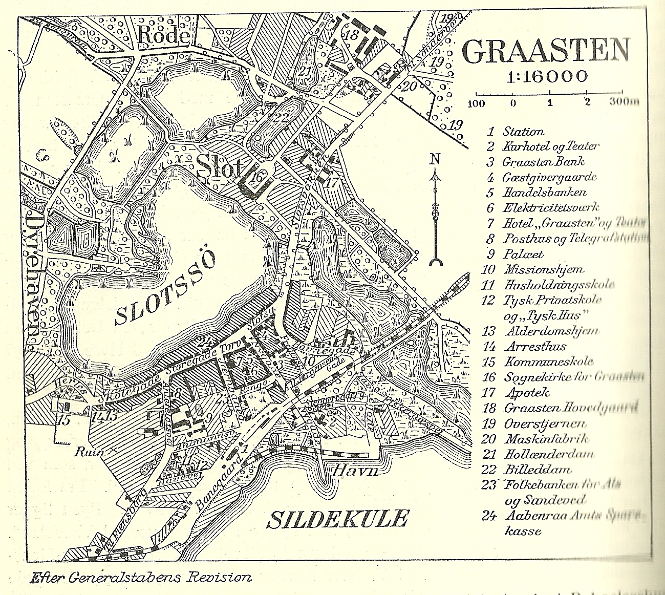 Map of Graasten 1930